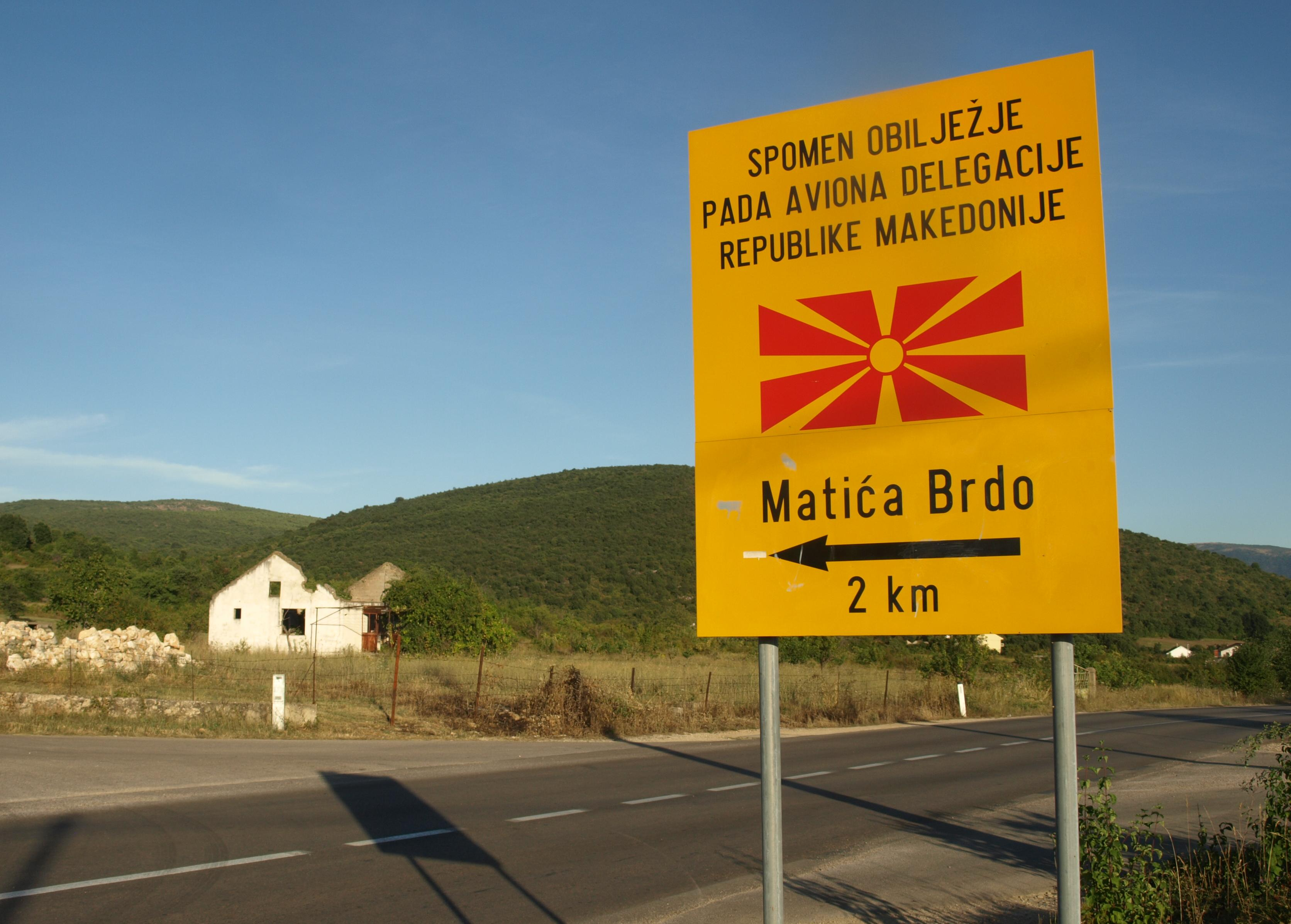 Road sign to the memorial for the plane crash where Macedonian president Bosris Trajkovski died in 2004 near Huskovići, Bosnia and Herzegovina